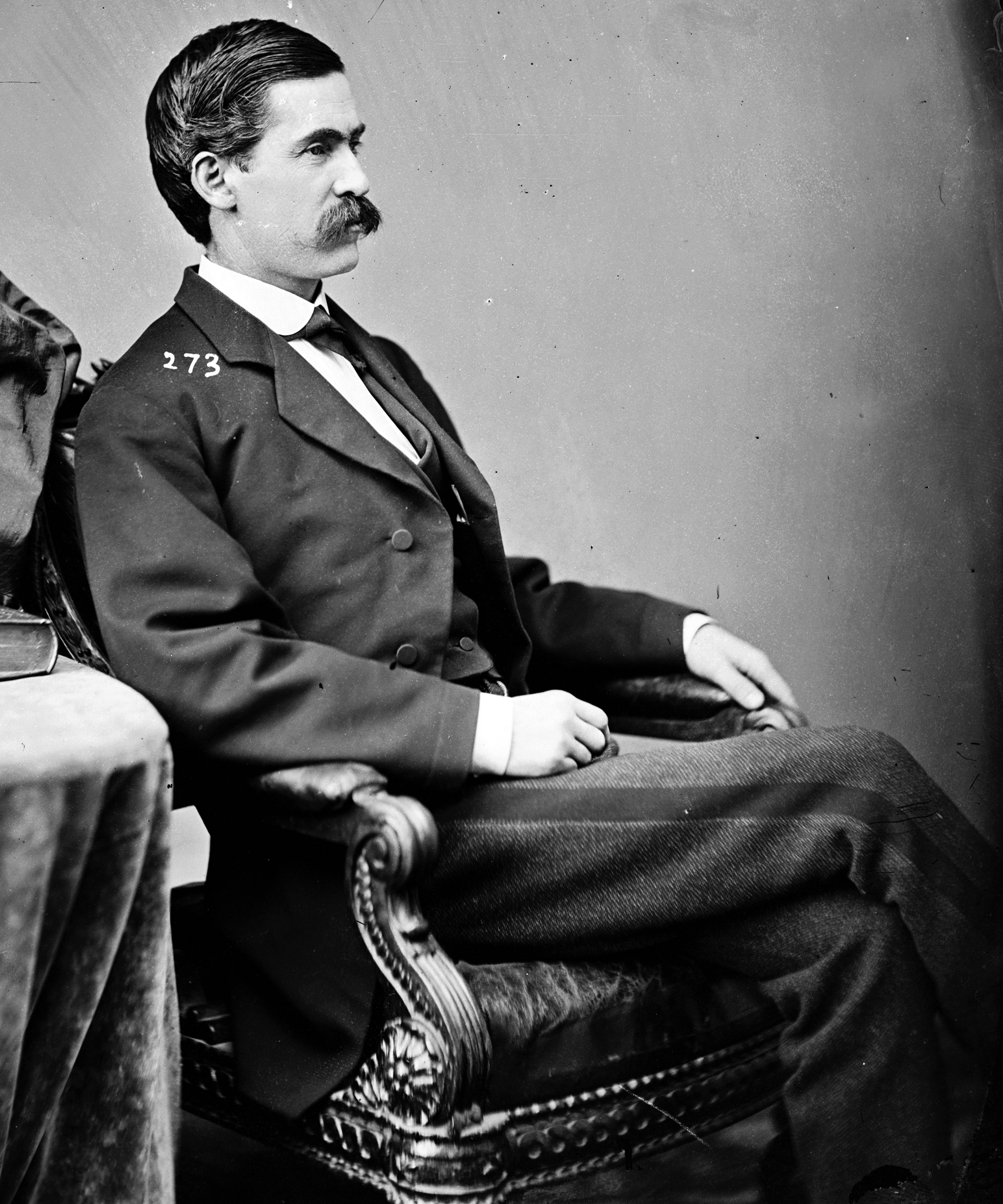 Eugene McLanahan Wilson, US Representative from Minnesota